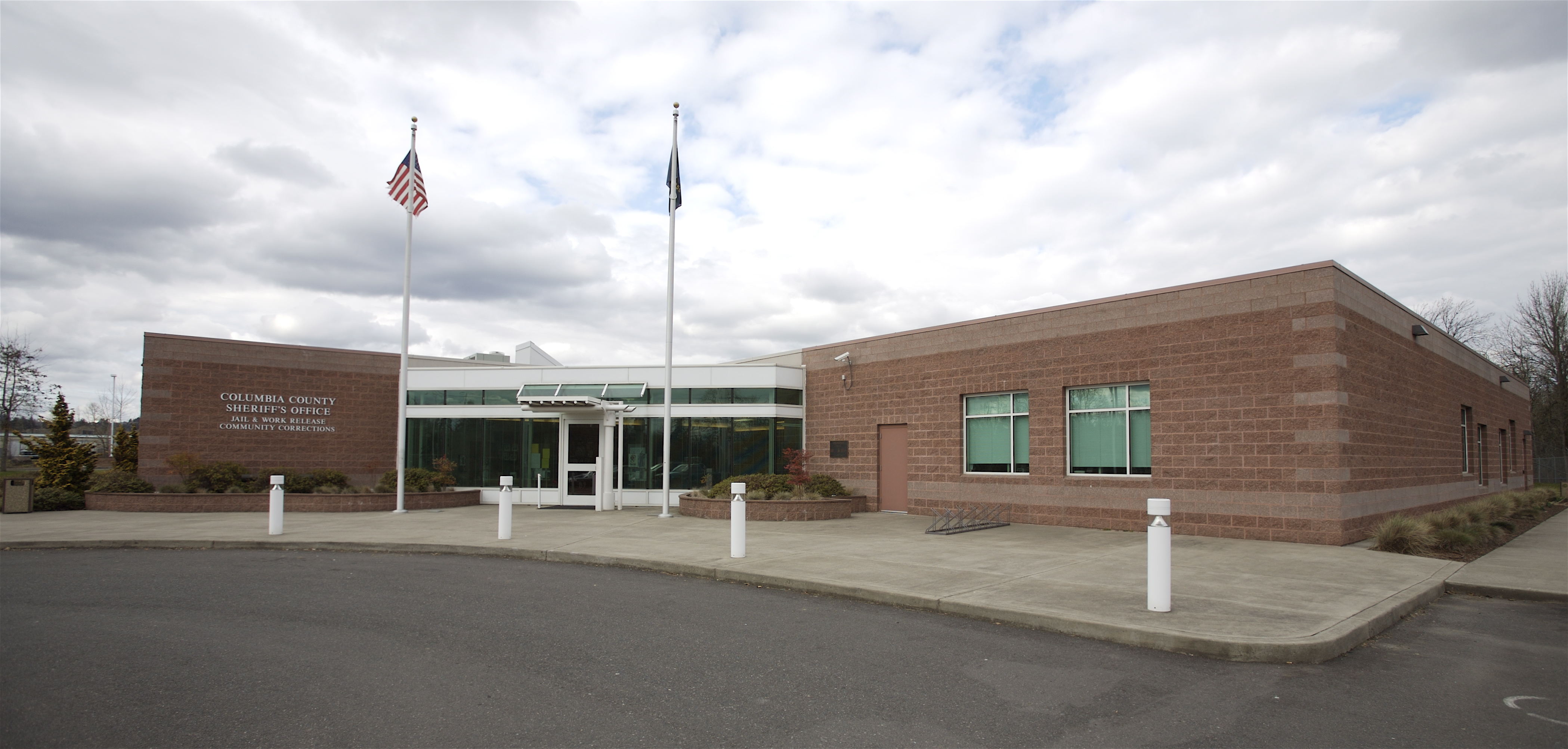 The Columbia County Sheriff's Office in St. Helens, Oregon.